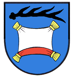 Coat of arms of Pfullingen